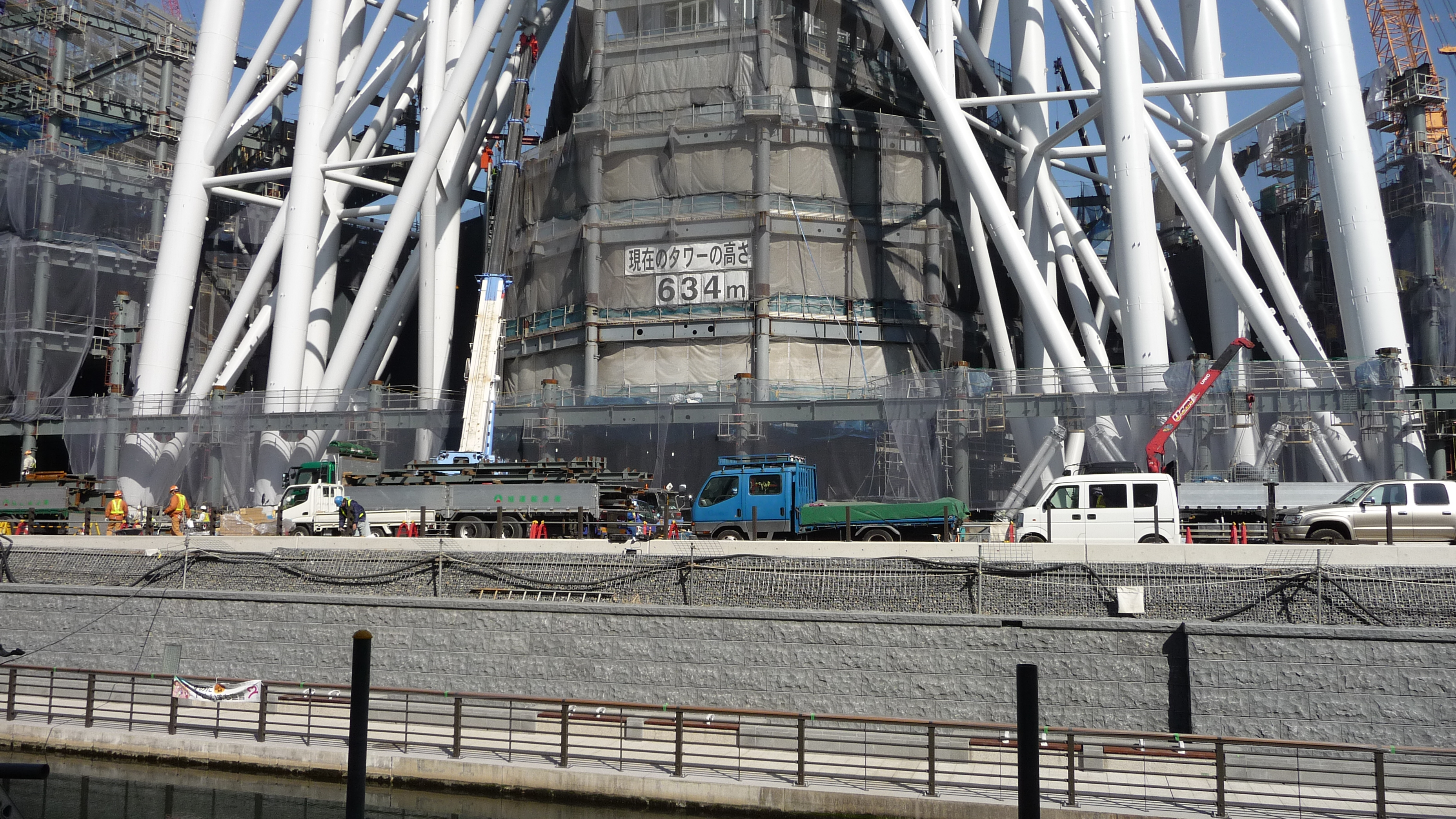 Tokyo Sky Tree under construction, with banner indicating final height of 634 m reached on 18 March 2011